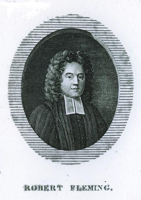 Portrait of Robert Fleming the younger (1660?–1716), Scottish presbyterian minister. Frontispiece in an 1809 edition of A Discourse on the Rise and Fall of Papacy.